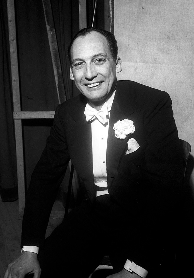 Portrait of a smiling Alberto Fernando Riccardo Semprini, known as Alberto Semprini, musician and orchestra director at the IV Sanremo Music Festival; the Maestro, who was born in England, is seated in the backstage and is wearing a dinner-jacket. Sanremo (IM), Italy, January 1954.